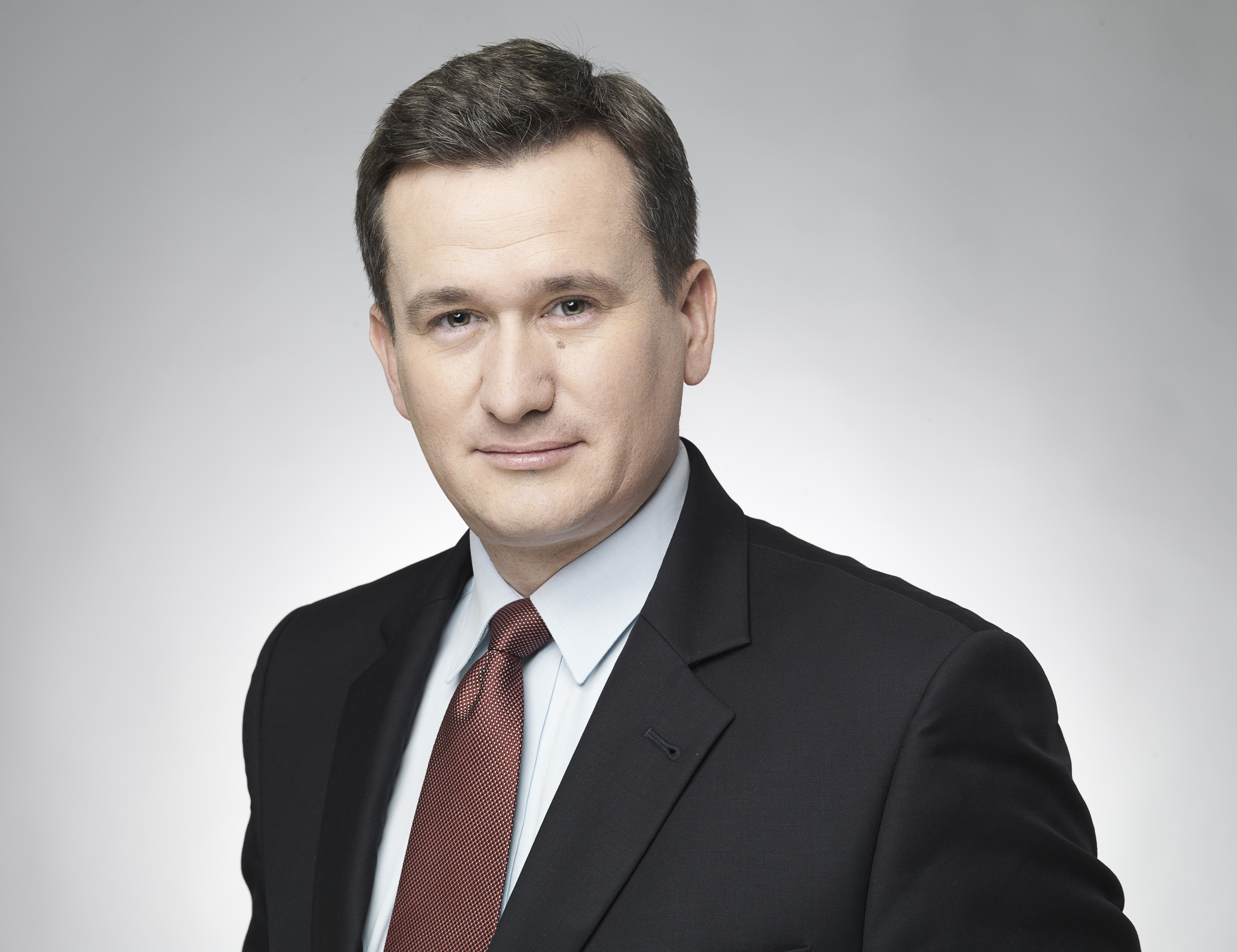 Grzegorz Marek Poznański, diplomat, Poland